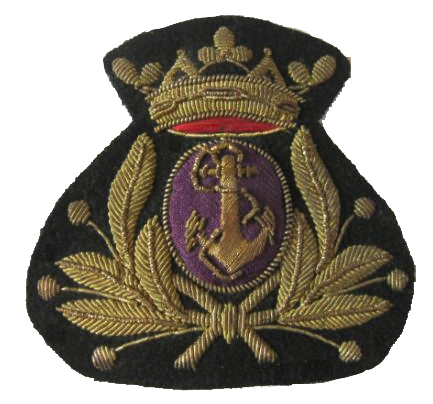 It's my own work. I took the picture. Evidently, I have not made the patch. Please, don't delete it!!!